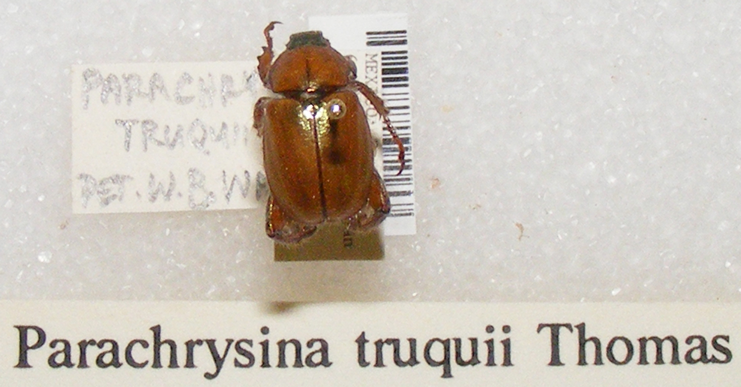 Parachrysina truquii adult from the Texas A&M University Insect Collection